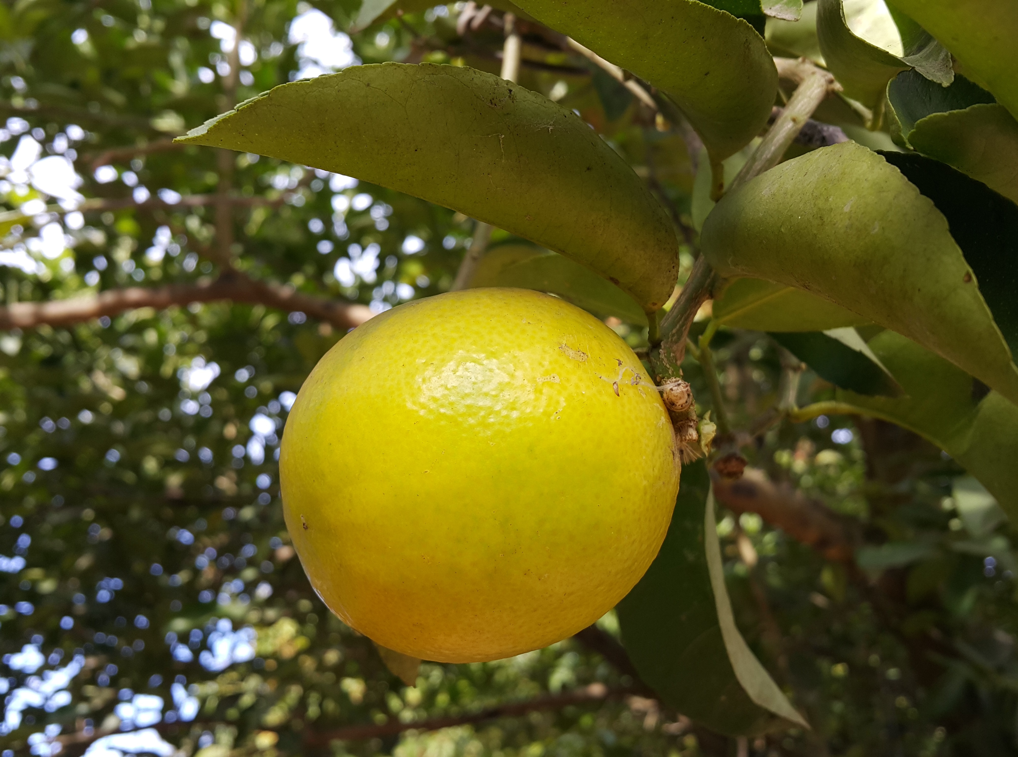 A Palestinian sweet lime, fruit of Citrus × limettoides, grown in Duque de Caxias, Rio de Janeiro, Brazil.